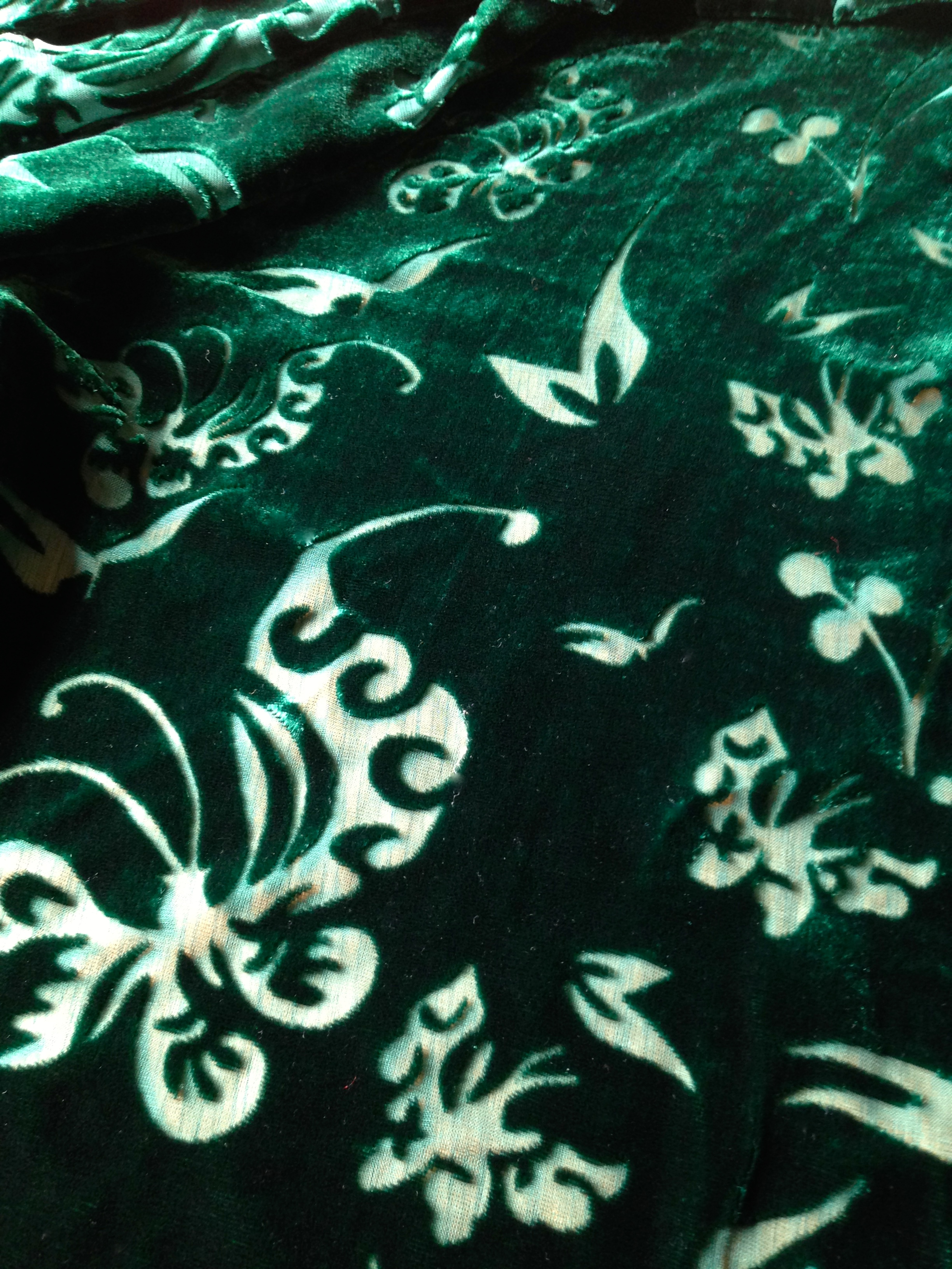 Green devoré velvet fabric. Devoré (or burnout) is a technique particularly used on velvets. Chemical is applied to fabric in order to dissolve cellulose-based fibres and create a semi-transparent pattern where silk-based fibres remain.